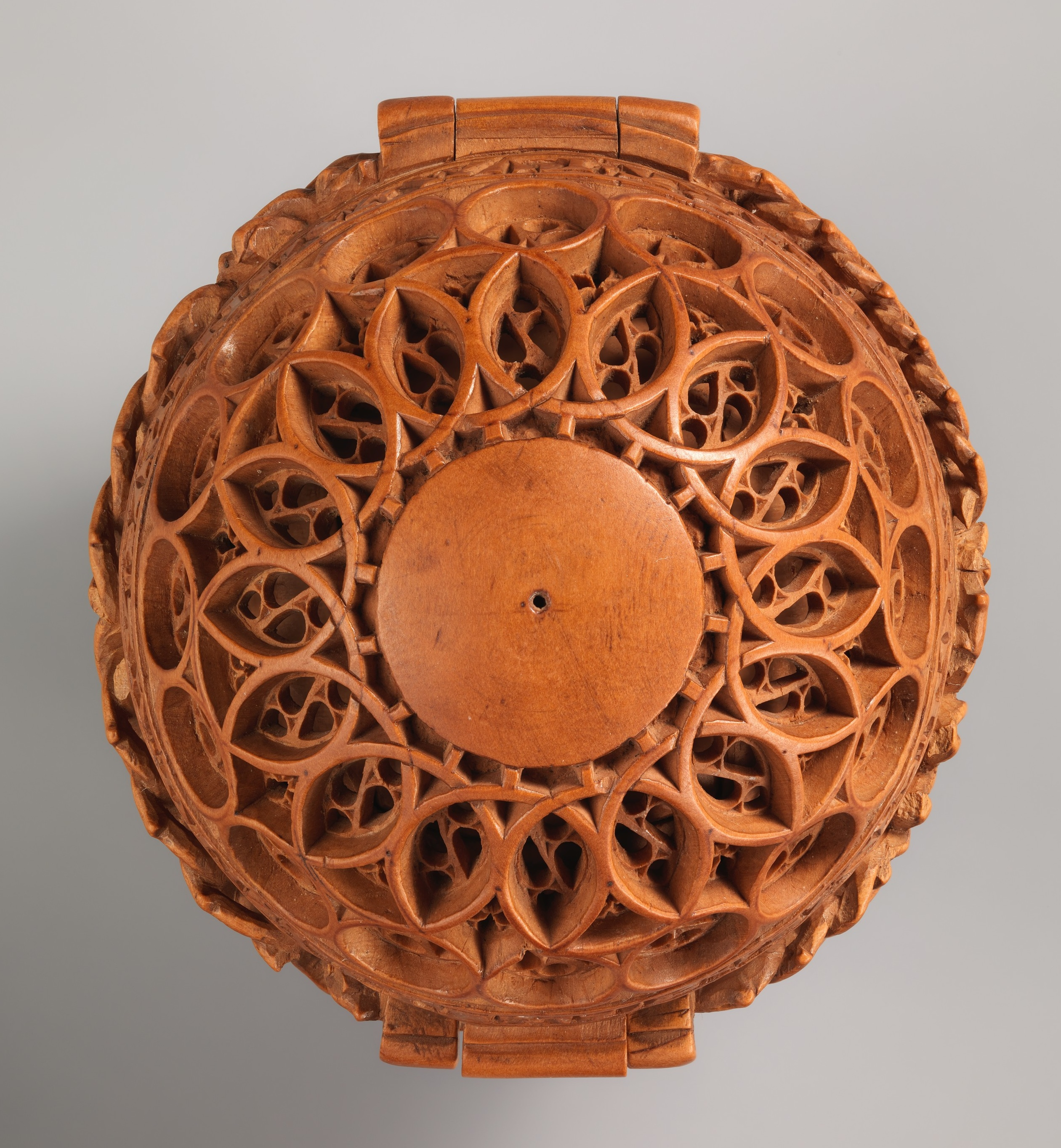 "Prayer Bead with the Adoration of the Magi and the Crucifixion". Boxwood Prayer bead; Sculpture-Miniature-Wood. Gift of J. Pierpont Morgan, 1917